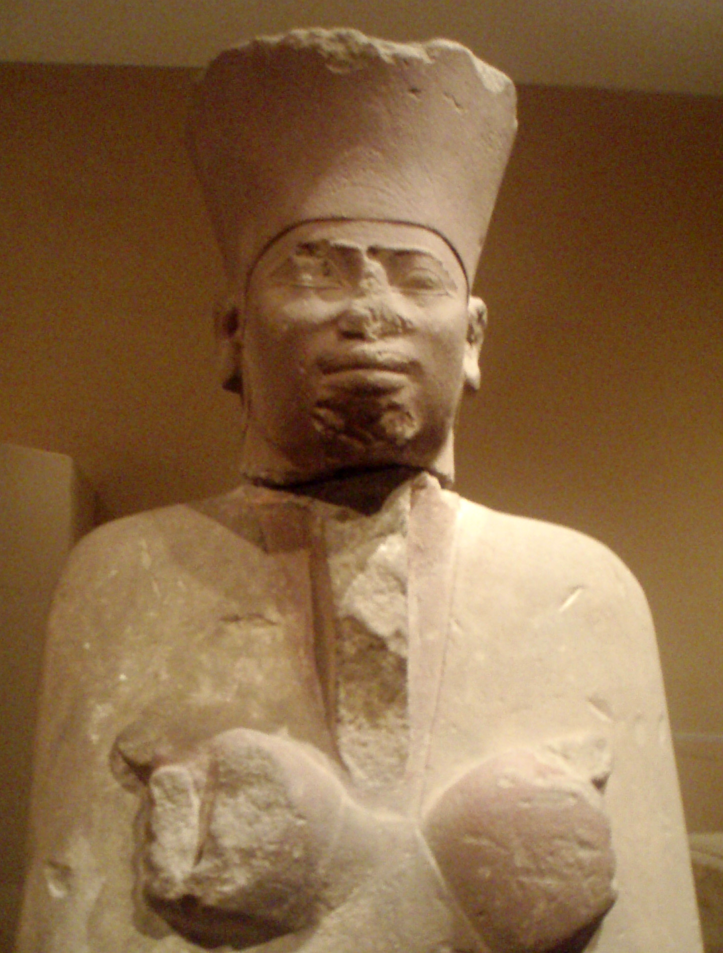 Close-up of a painted sandstone statue of Nebhepetre Mentuhotep (Mentuhotep II) wearing the red crown of Lower Egypt. From the 11th dynasty